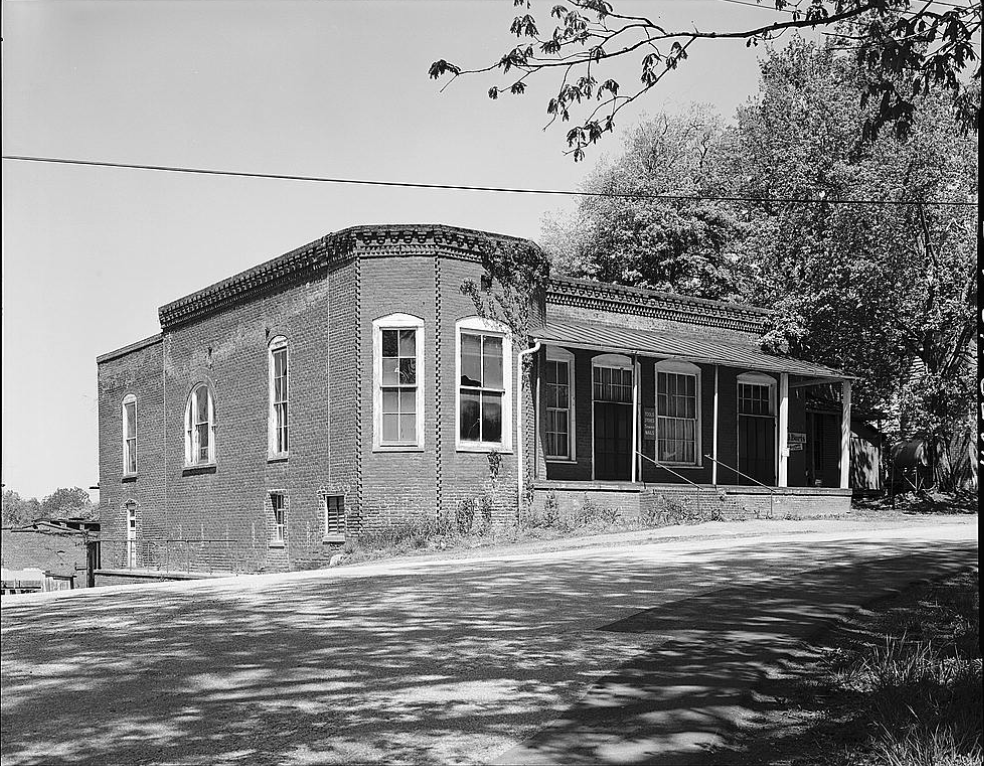 VIEW OF COMPANY STORE. - Glencoe Cotton Mills, State Routes 1598 & 1600, Glencoe, Alamance County, NC PHOTOS FROM SURVEY HAER NC-6